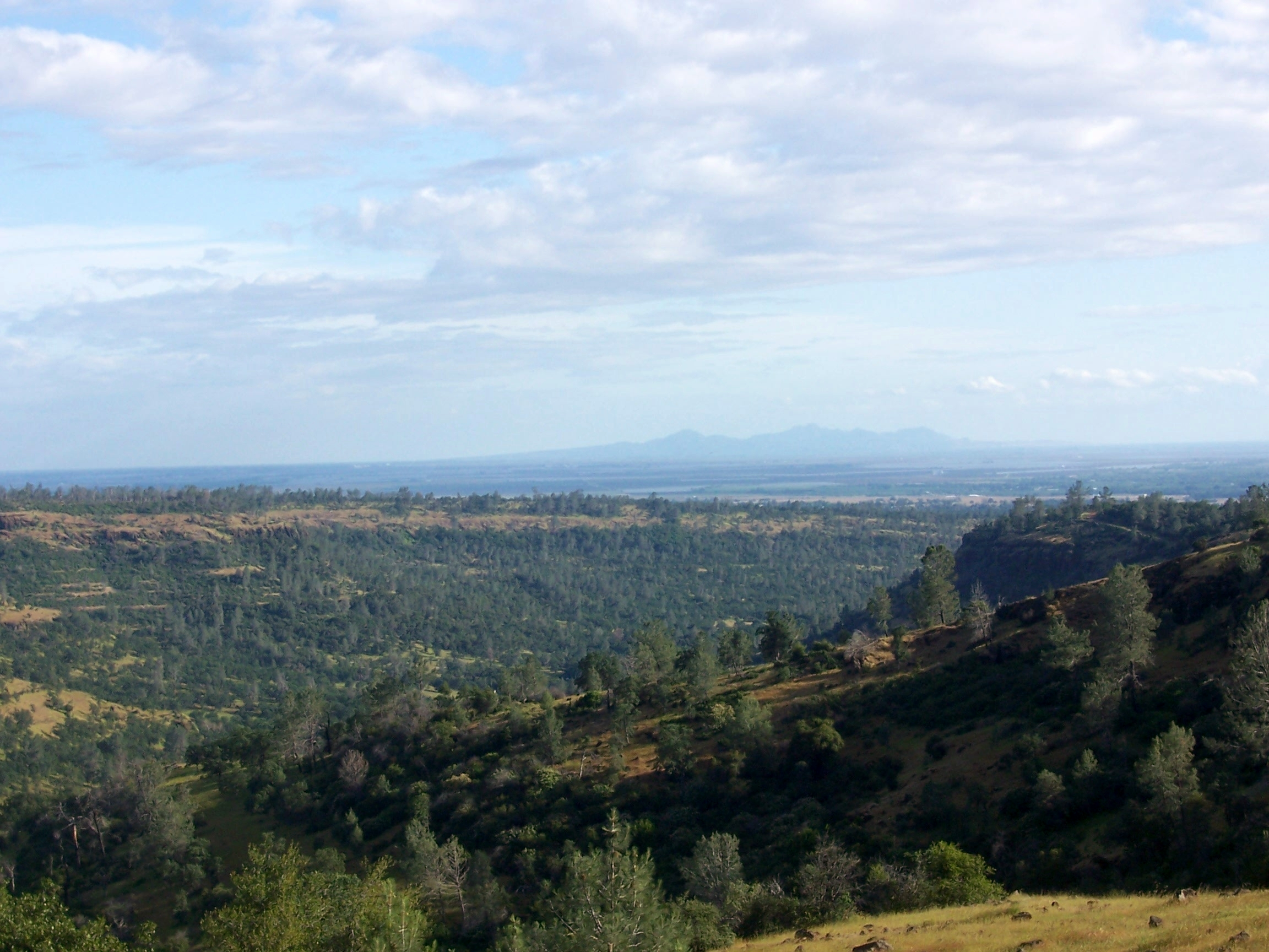 Natural landscape of Butte County — in the northern Sacramento Valley and Inner Coast Ranges, northern California. Credits Photo by Emily Bryden, 2005